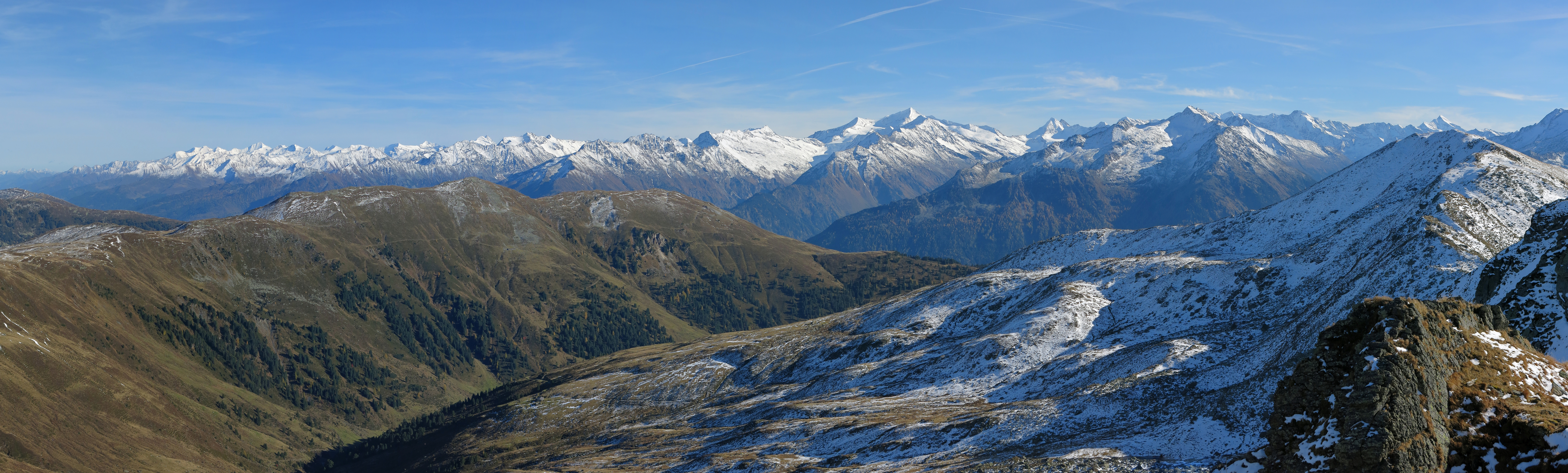 The High Tauern with Glockner Group and Venediger Group, northwerstern view from the Tristkopf in the Kitzbühel Alps.